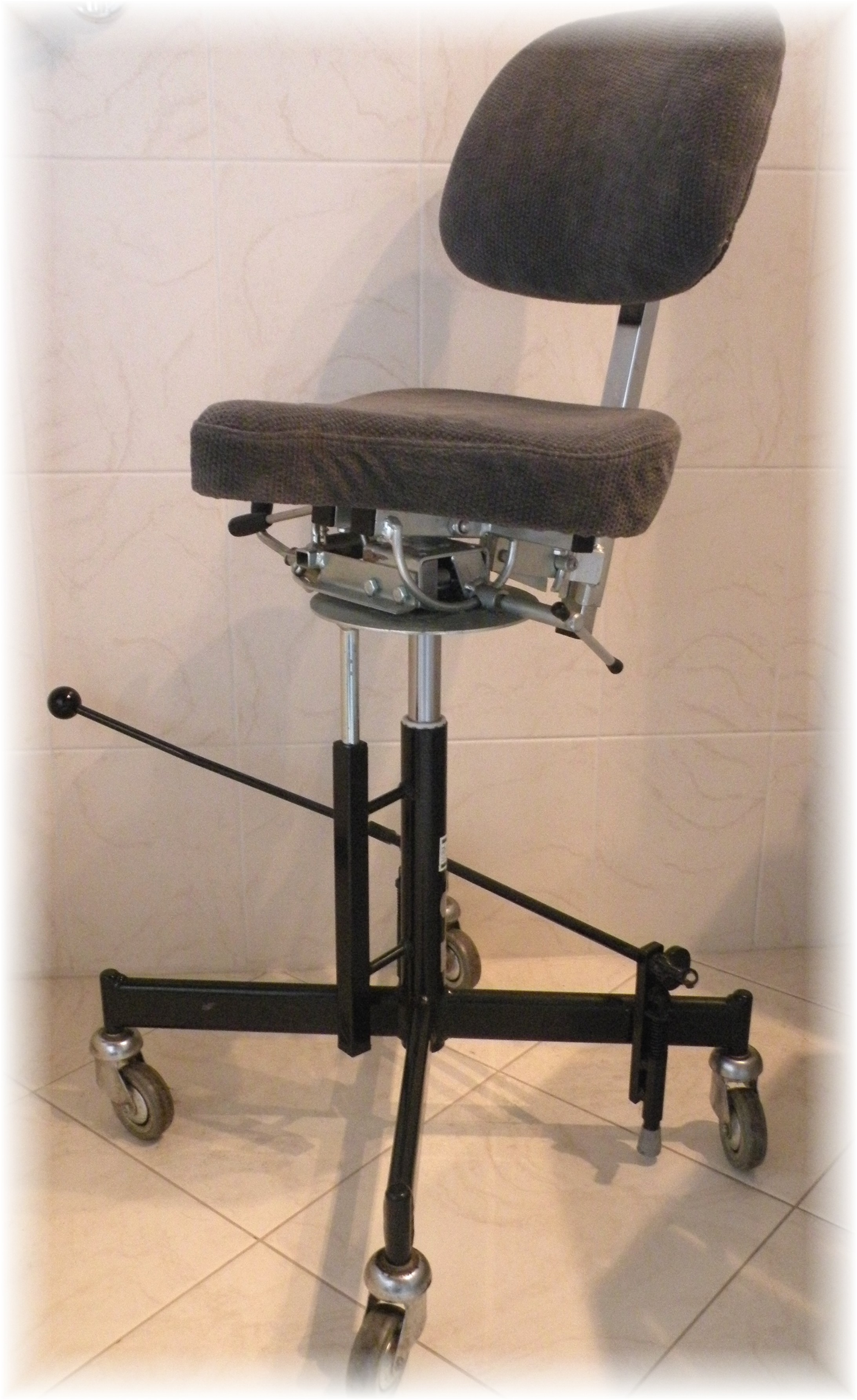 Tripping chair